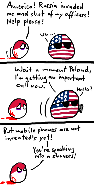 Polandball comic on the news that the United States covered up knowledge of the Katyn massacre (news link)